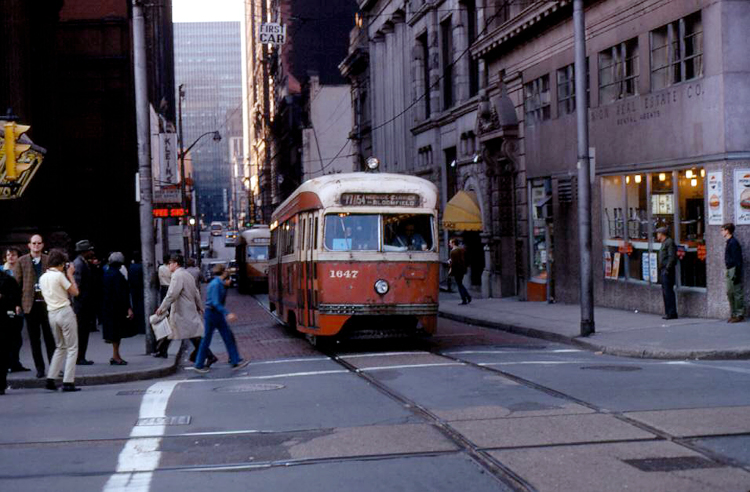 PCC car 1647 eastbound on 4th Avenue at Smithfield Street in downtown Pittsburgh, in the 1970s. The car is running on a fan trip (enthusiast excursion) and is marked for line 77/54, which closed in 1965. Original description